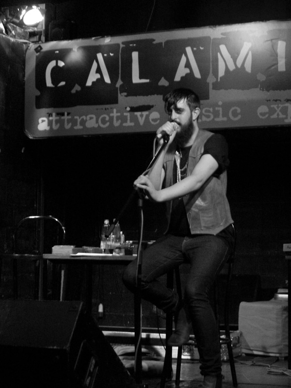 Scott Matthew @ Calamita Cavriago, 22nd November 2008